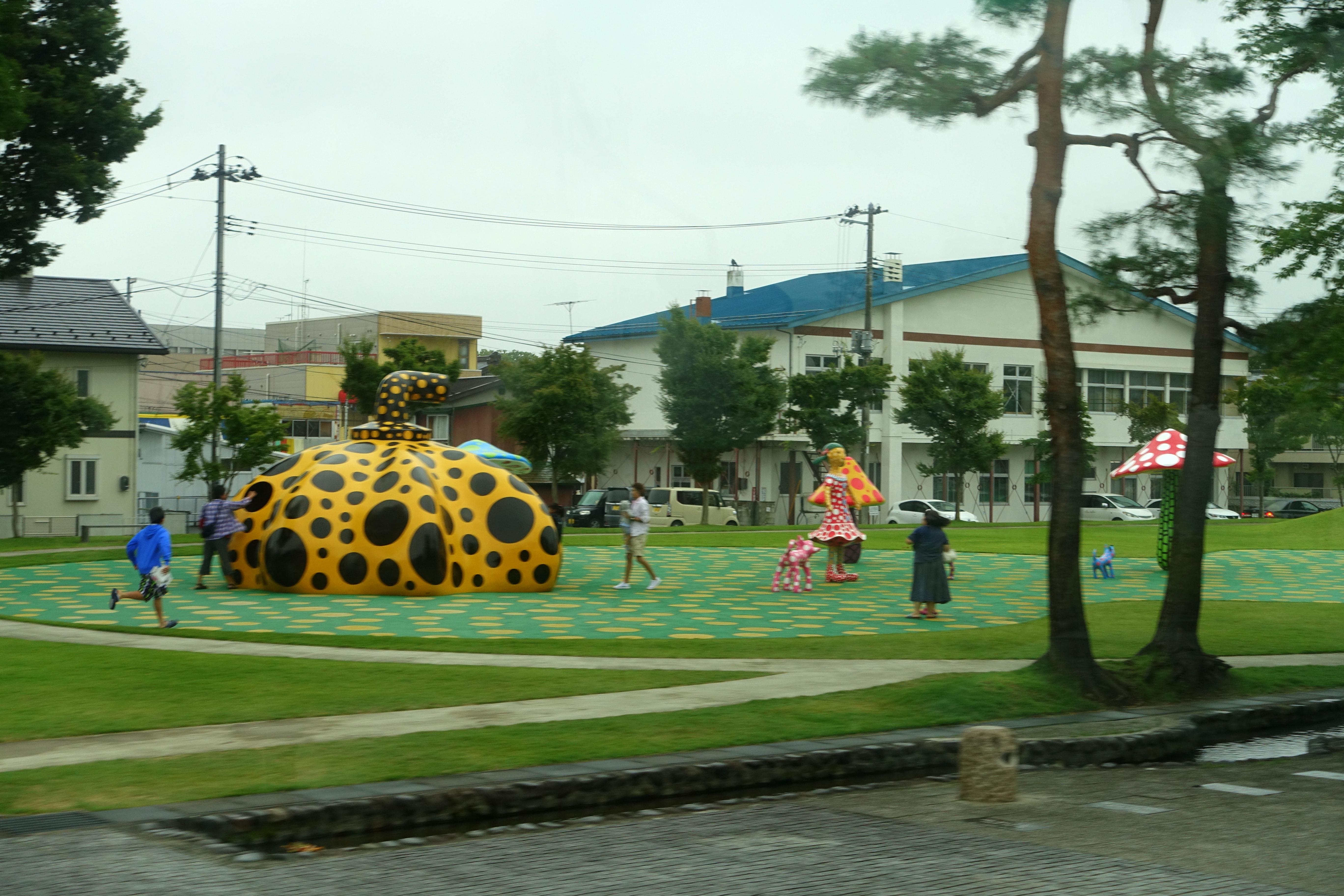 Towada Art Center - Towada, Aomori, Japan.